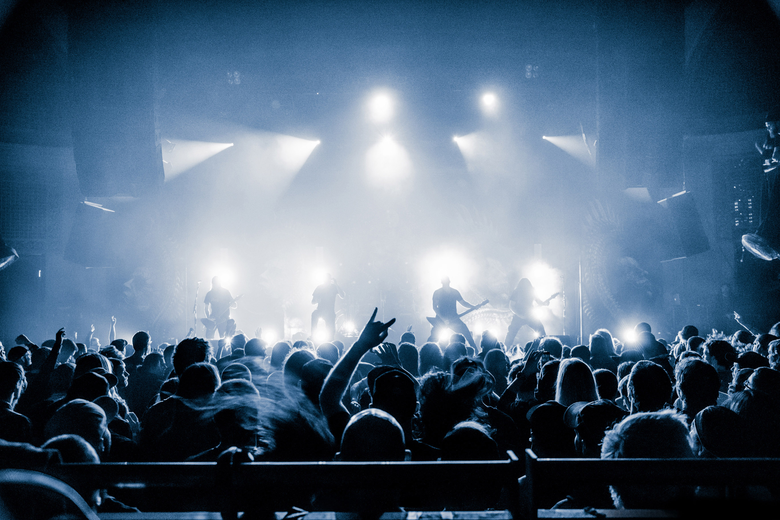 Swedish Metal band, Meshuggah, Live on their US tour 2016.